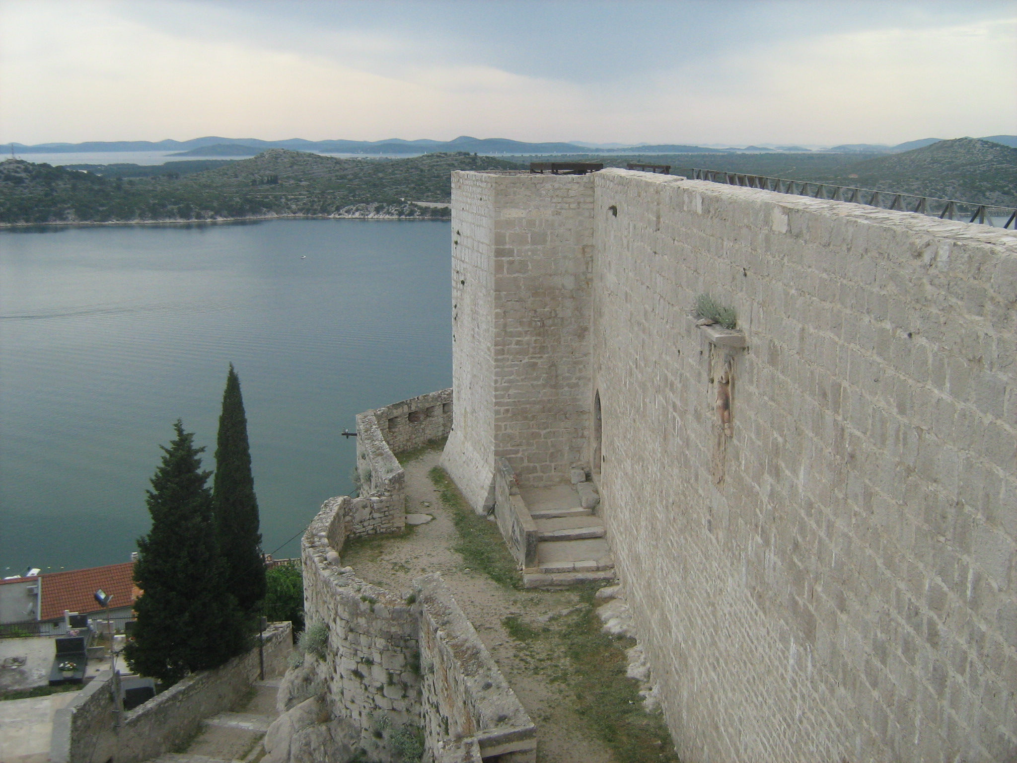 View from the Fortress